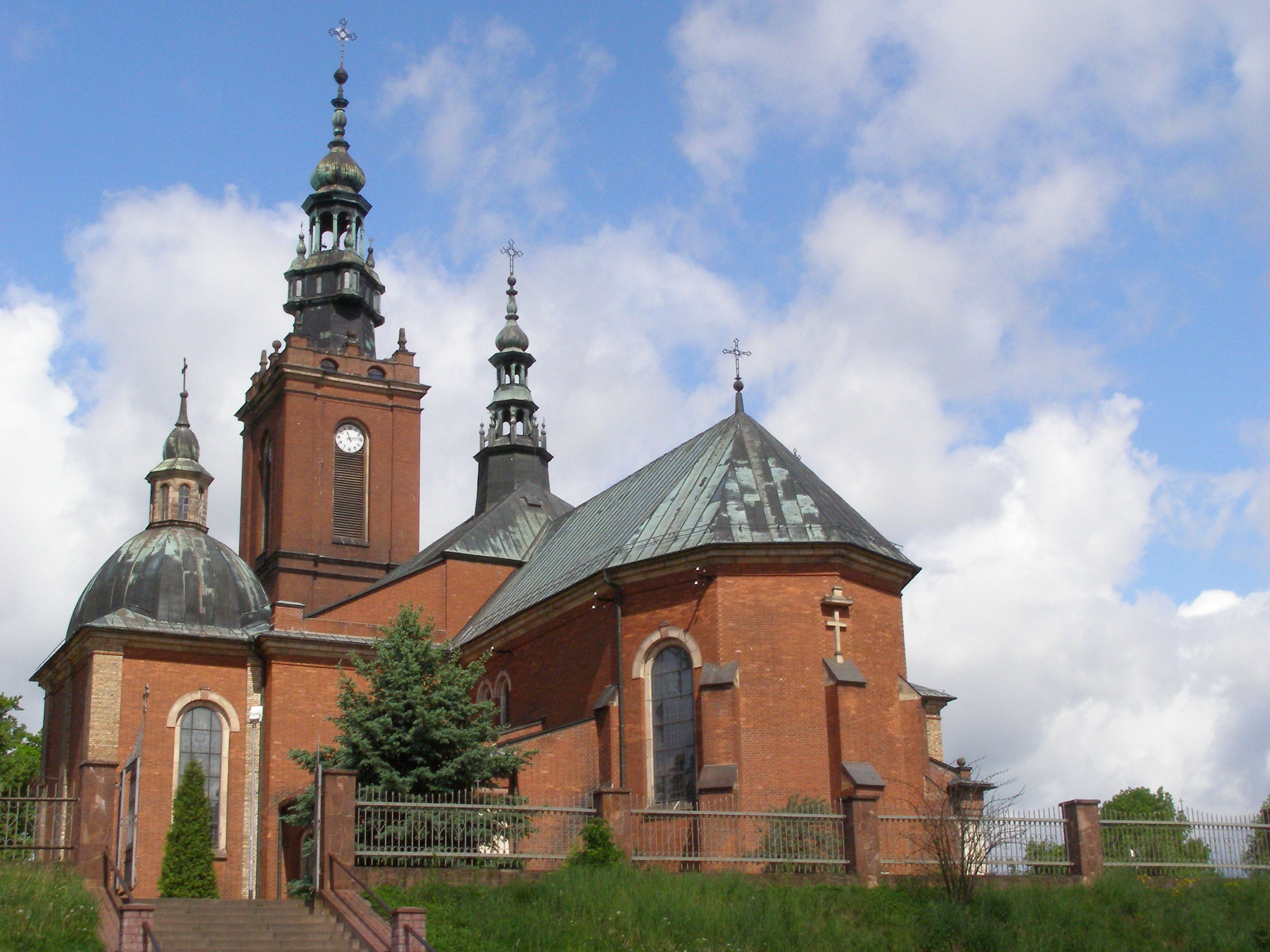 Sułoszowa - Sacred Heart church